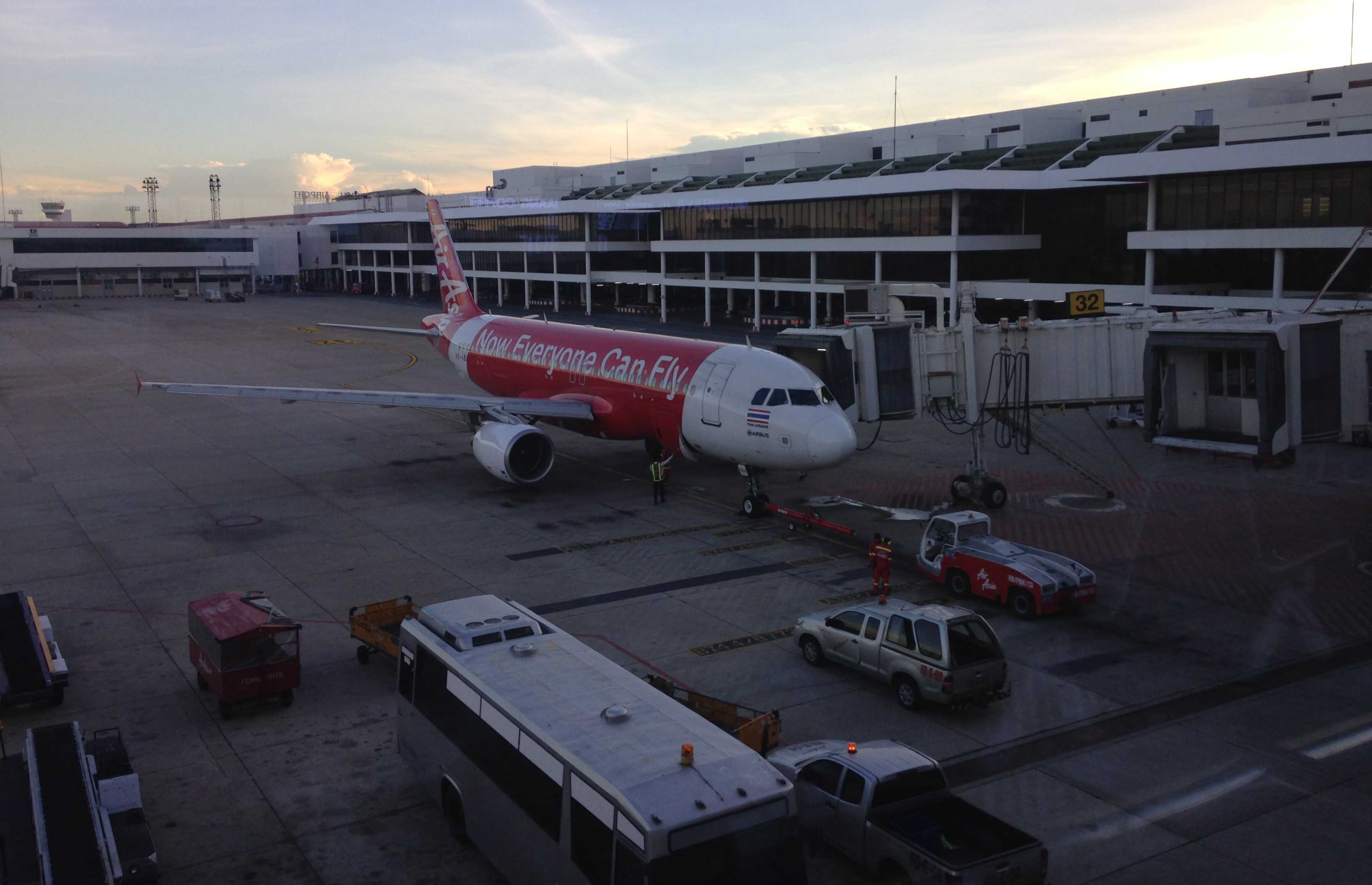 Thai AirAsia Airbus A320 reg.HS-ABA at gate 32